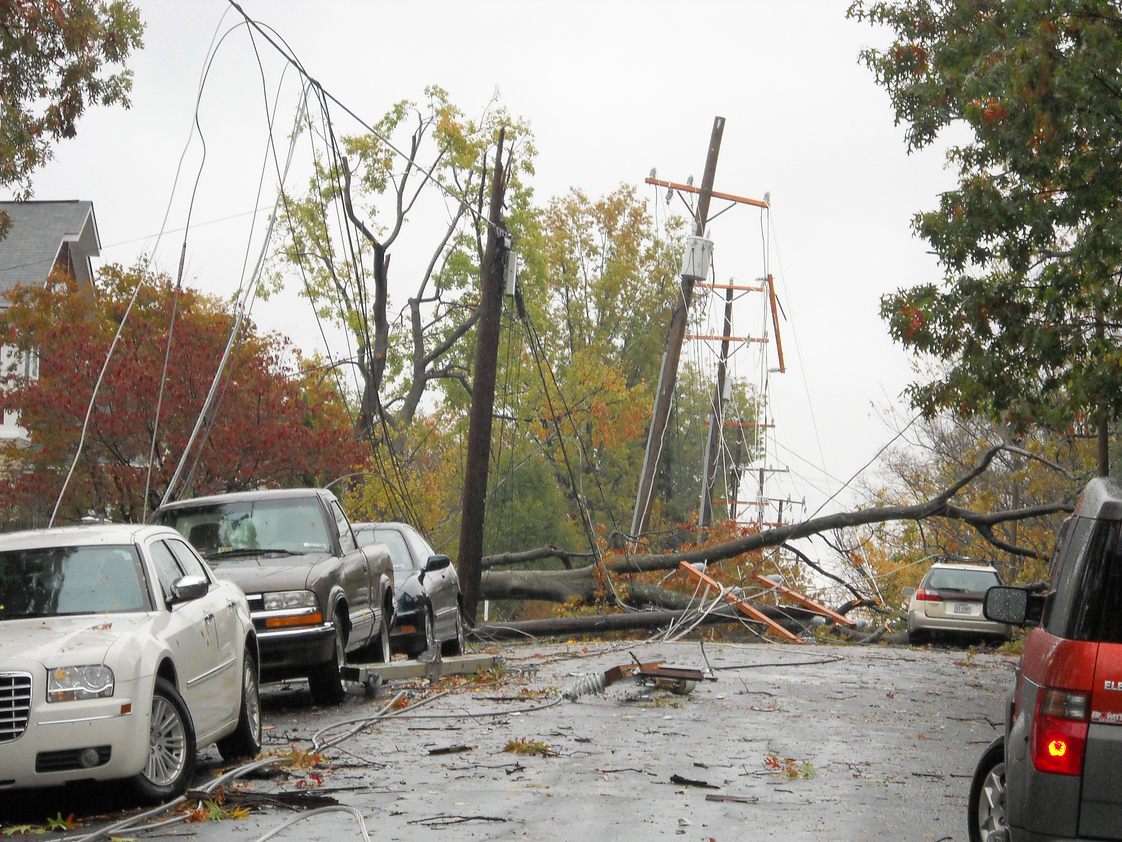 Aftermath of Storm Sandy (hit Arlington on October 29th, 2012)